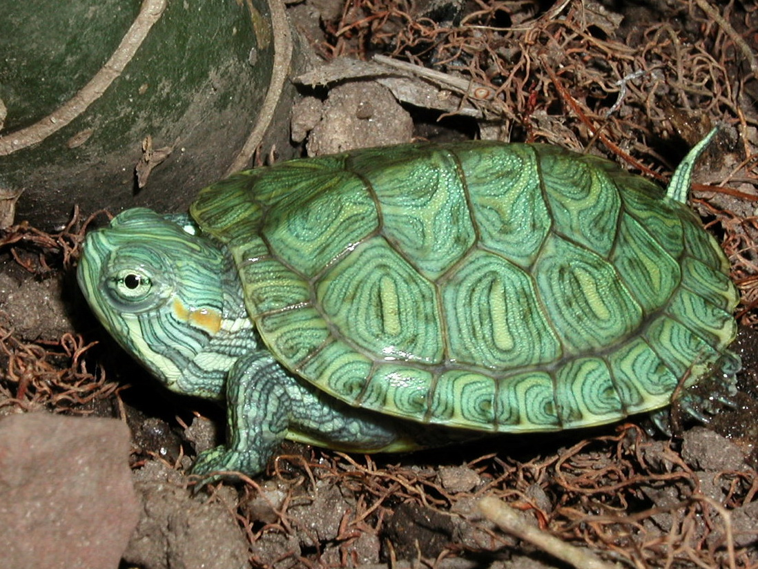 Trachemys scripta elegans